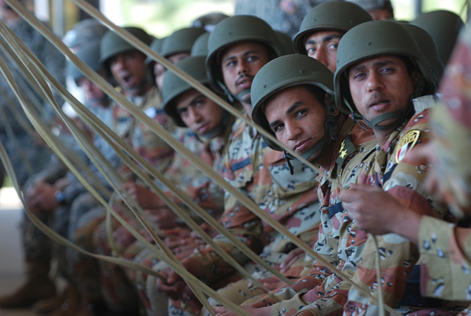 Egyptian and American paratroopers conduct rehearsals at Pope Air Force Base, N.C. prior to a "friendship jump" airborne operation featuring airborne forces from five countries, including the U.S. 82nd Airborne Division. The jump was part of the Bright Star Exercise, a joint, multi-national training exercise being held at Fort Bragg, N.C. from Sep. 28-Oct. 12.